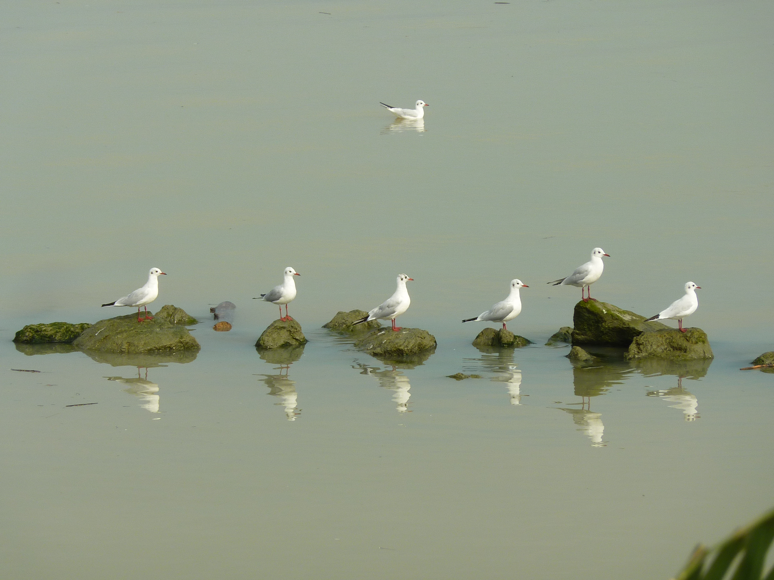 birds, river Po